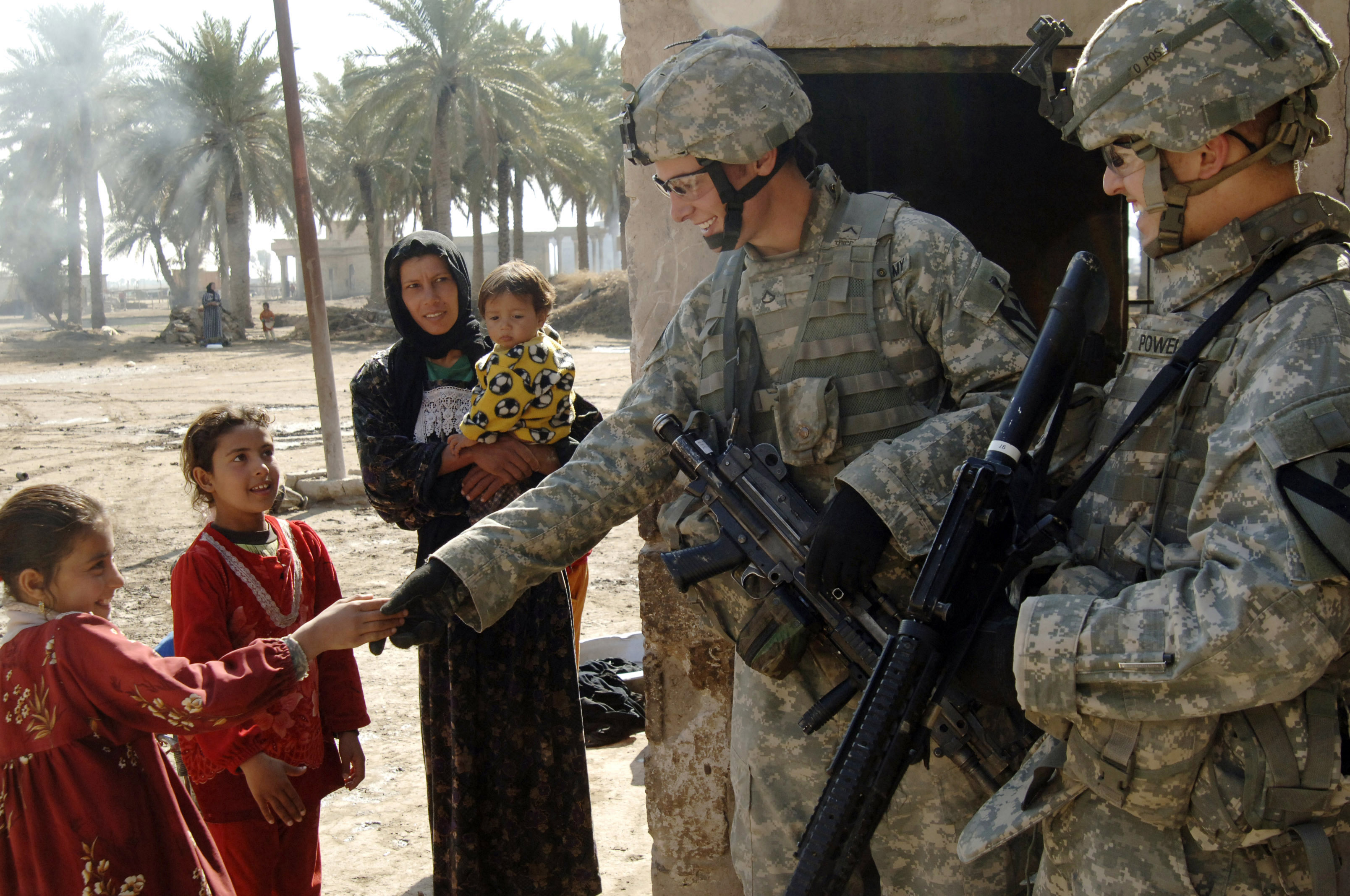 Pfc. Kurtis Tripp, assigned to Alpha Company, 2nd Battalion, 5th Cavalry Regiment, 1st Cavalry Division, greets local Bini Ziad village children during a cordon and search operation at a village west of Baghdad, Iraq, Feb. 17, 2007. U.S. Navy photo by Petty Officer 2nd Class Kitt Amaritnant.